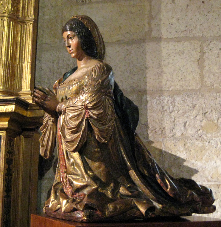 Statue of Isabelle of Castile by Bigarny. In Capilla Real of Granada